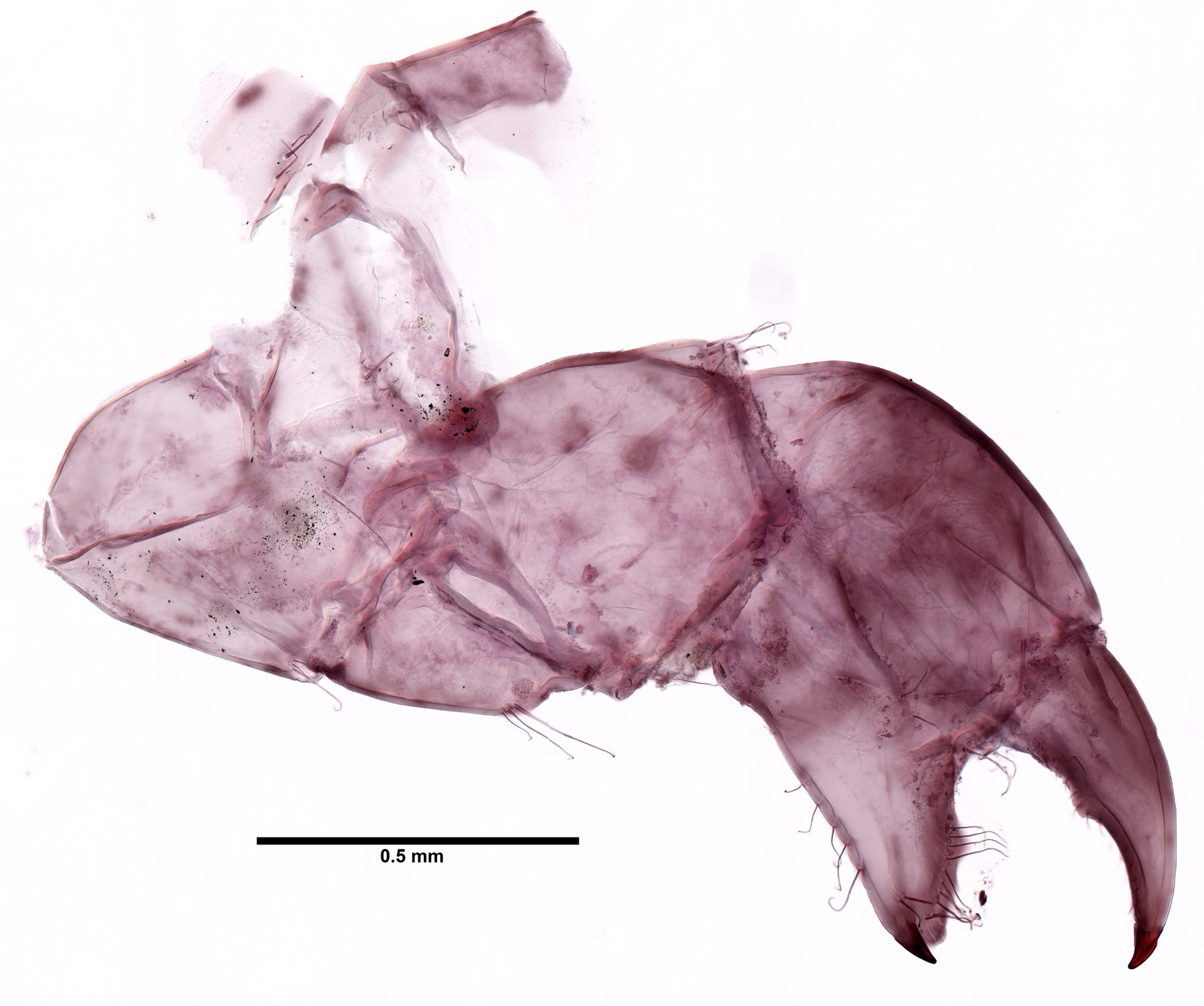 PRESERVED_SPECIMEN; ; ; microslide; ; CSBR Slide Grant Image 2015; IZ number 76906; lot count 1; Microslide 01, balsam, whole mount; Microslide 02, balsam, cheliped